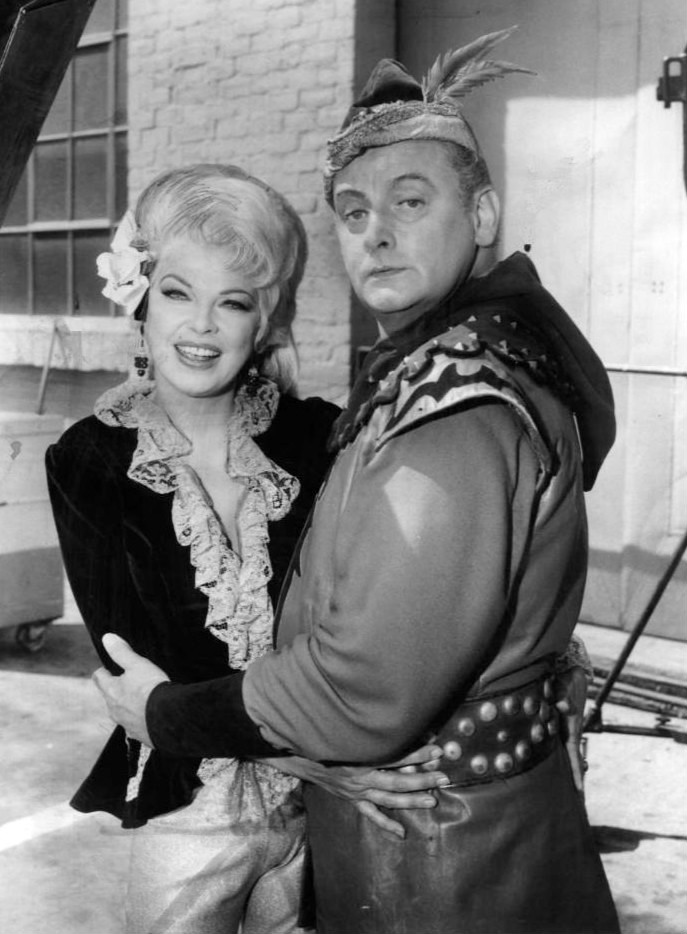 Photo of Art Carney as the Archer and Barbara Nichols from the television program Batman. (Note-seller lists the actress as his wife; Carney was once married to Barbara Isaac, not Nichols.)